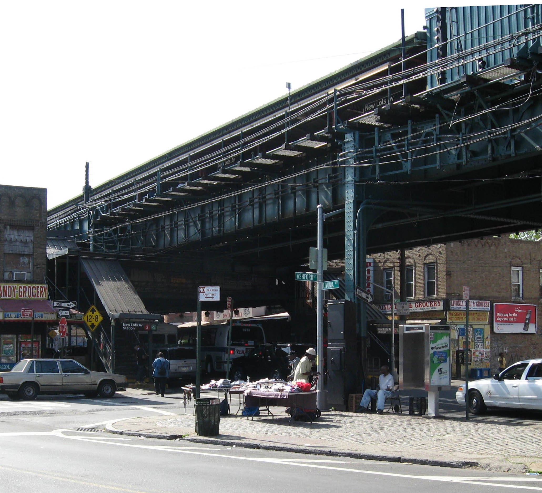 Looking west at stair of New Lots Avenue (IRT New Lots Line) terminal of New Lots line on a sunny afternoon in springtime.